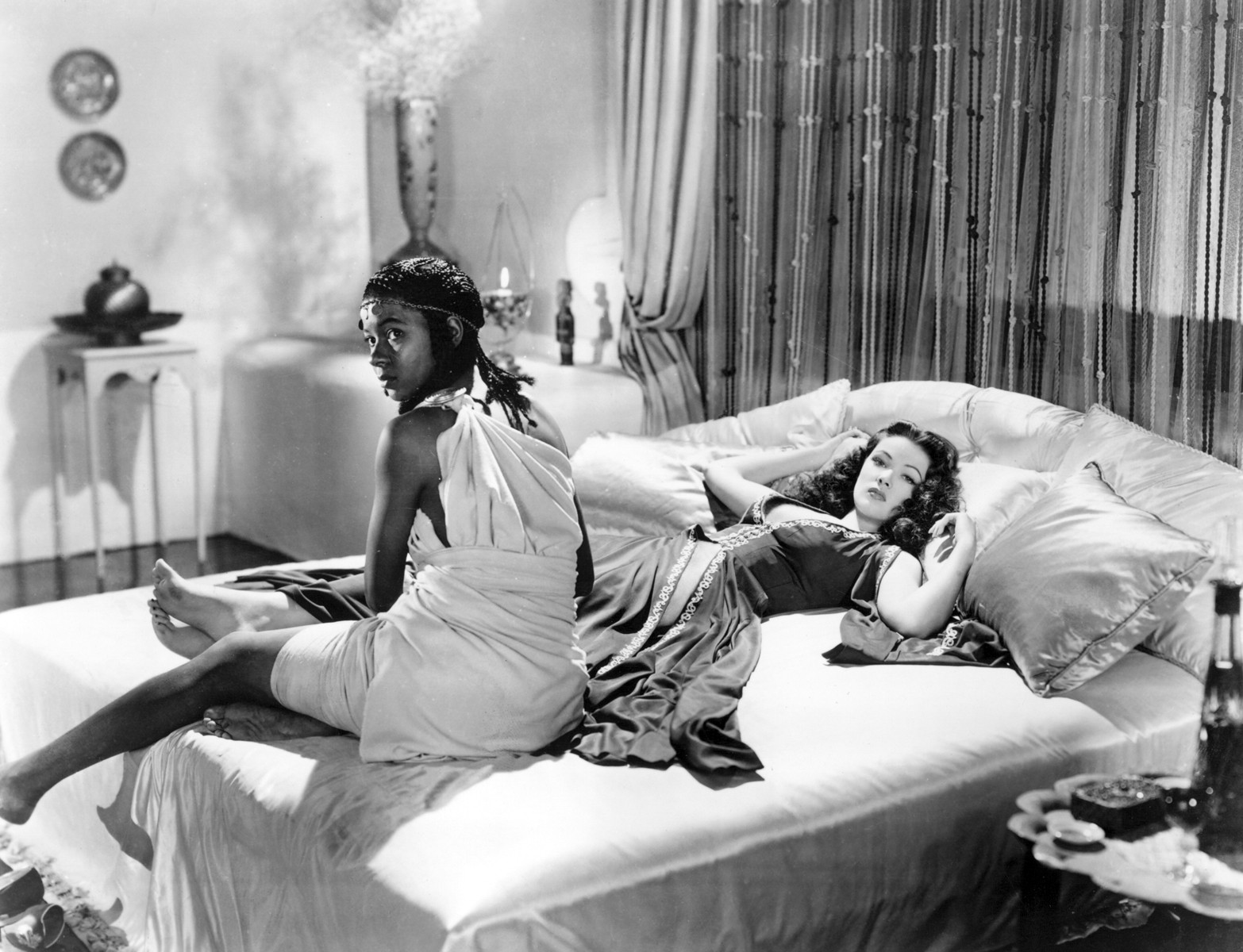 Jeni Le Gon (left) and Gene Tierney in Sundown (1941) - publicity still